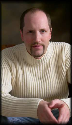 American composer and recording artist Bradley Joseph